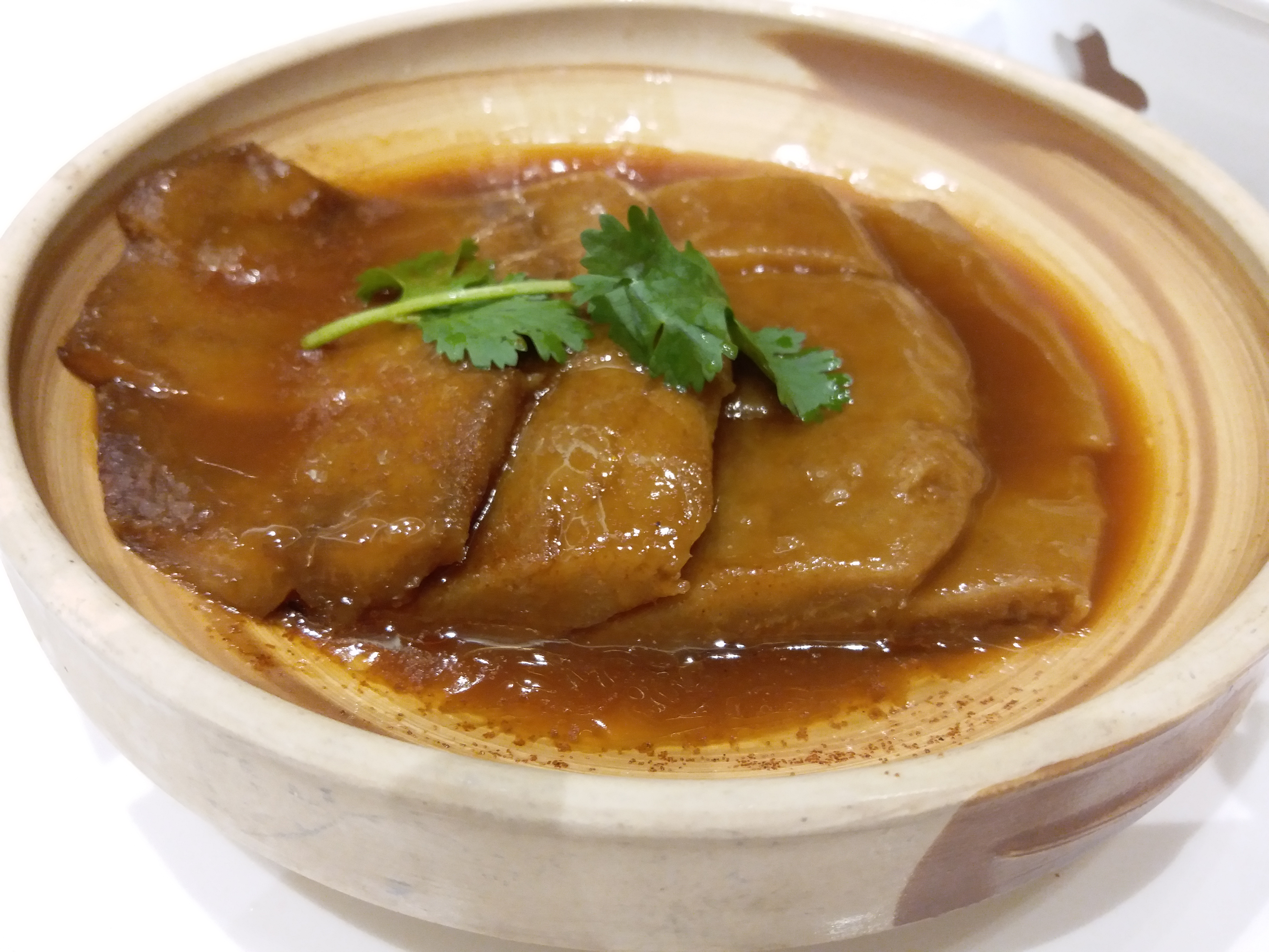 This photo has been taken in the country: China